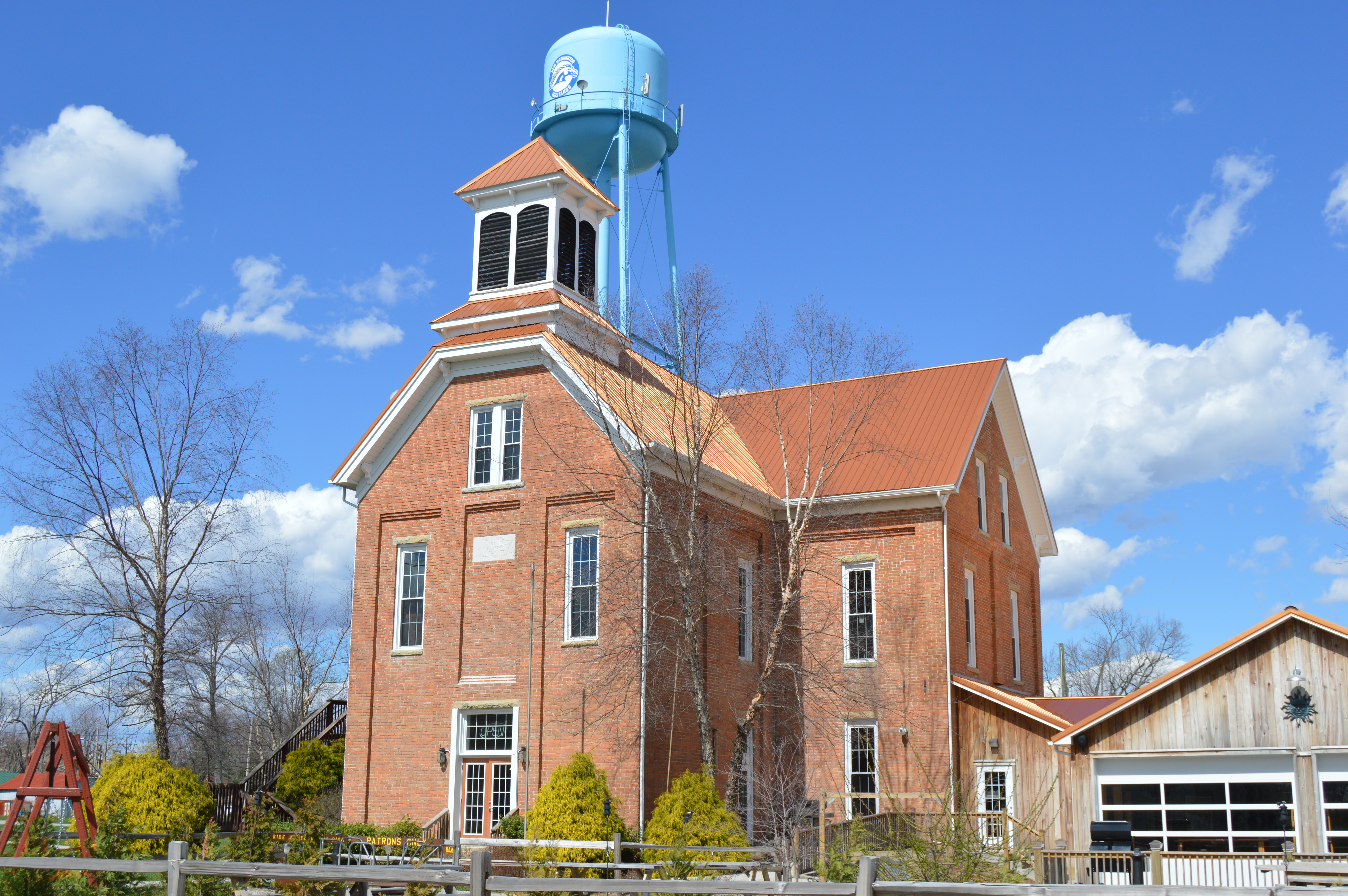 Front of the former New Washington Normal School (now a history museum, A Step Back), located at 409 E. Main Street in New Washington, Indiana, United States. It was built in 1894.